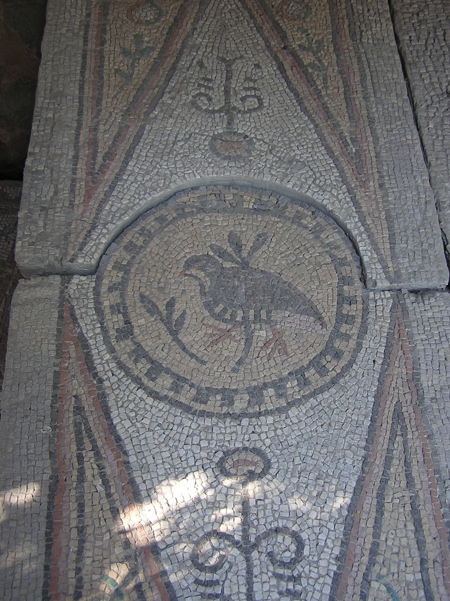 Khersones mosaic. VI century.